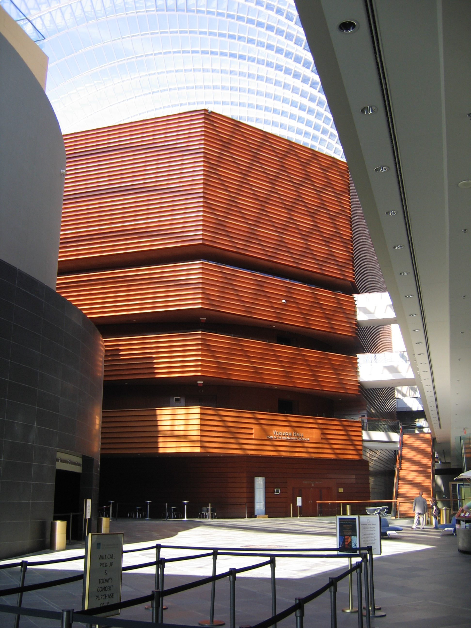 Kimmel Center for the Performing Arts interior